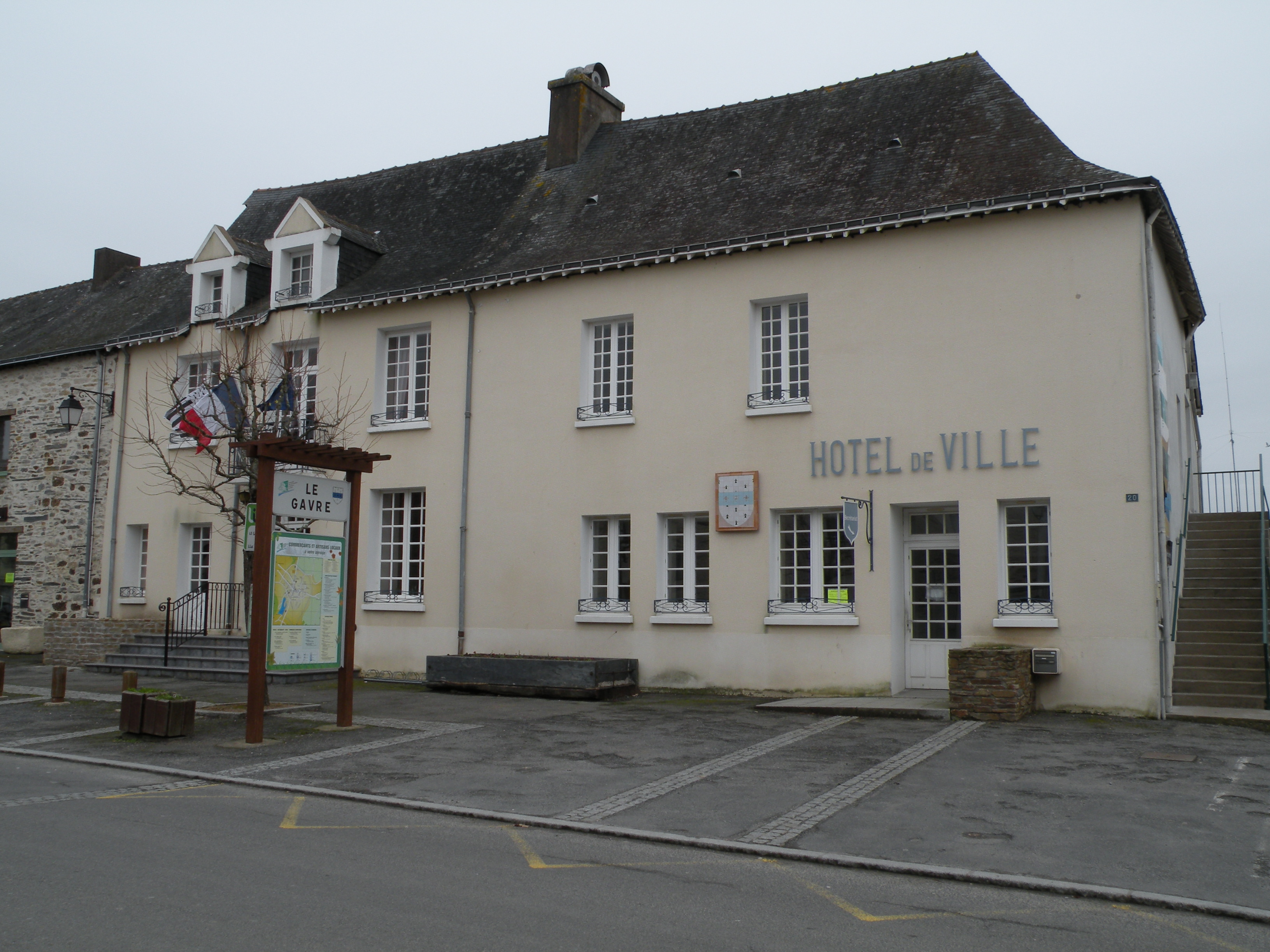 Town hall of Le Gâvre